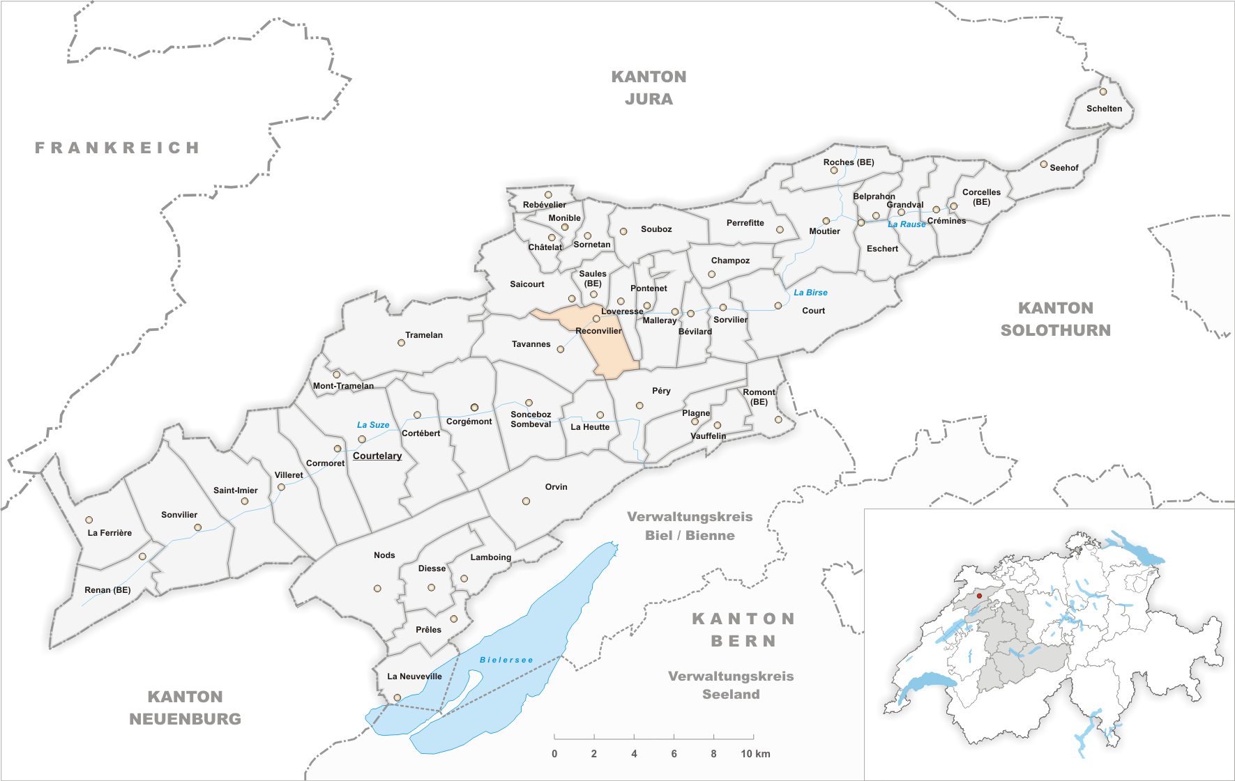 Municipality Reconvilier